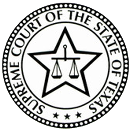 Seal of the Supreme Court of Texas.